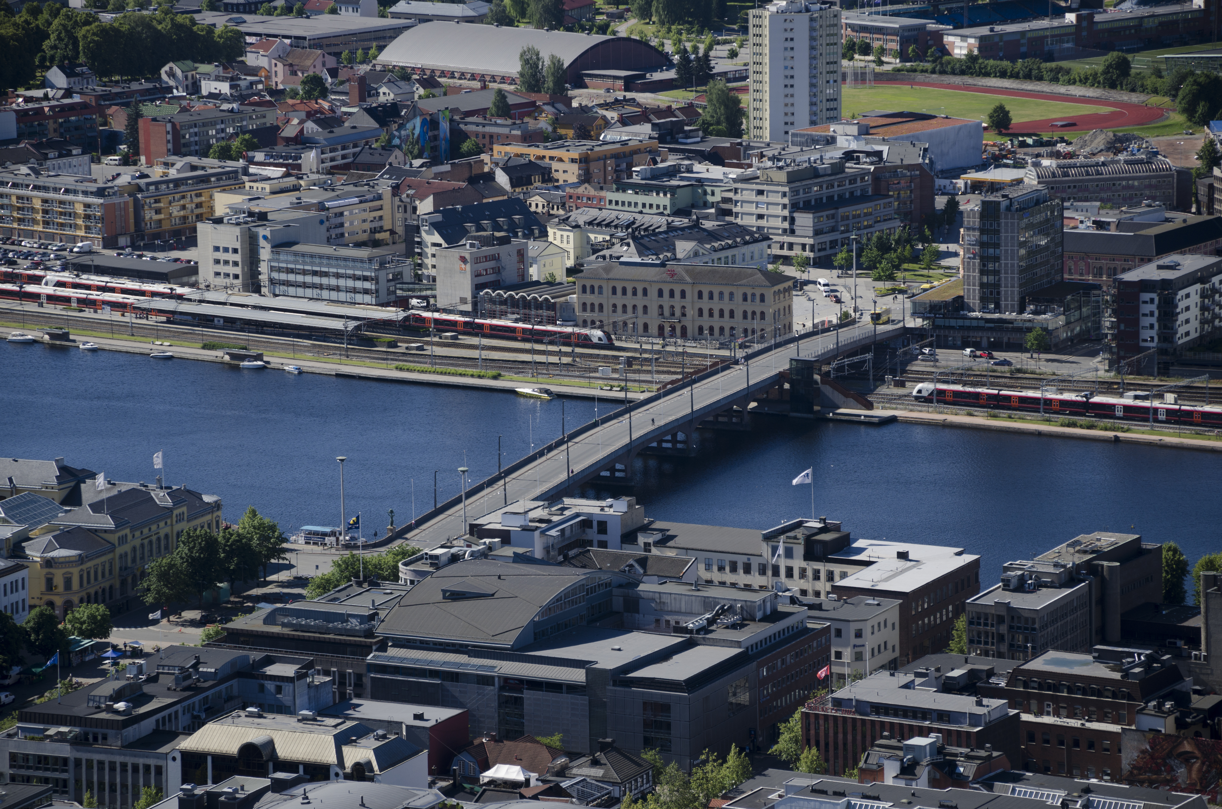 Drammen city bridge seen from the top of the Drammen Spiral in July 2017.